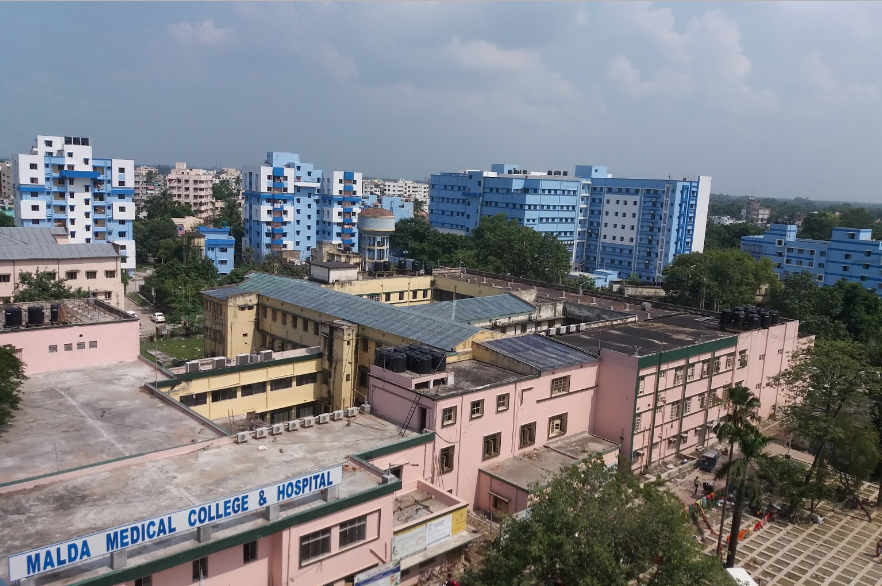 View of Malda Medical College and Hospital